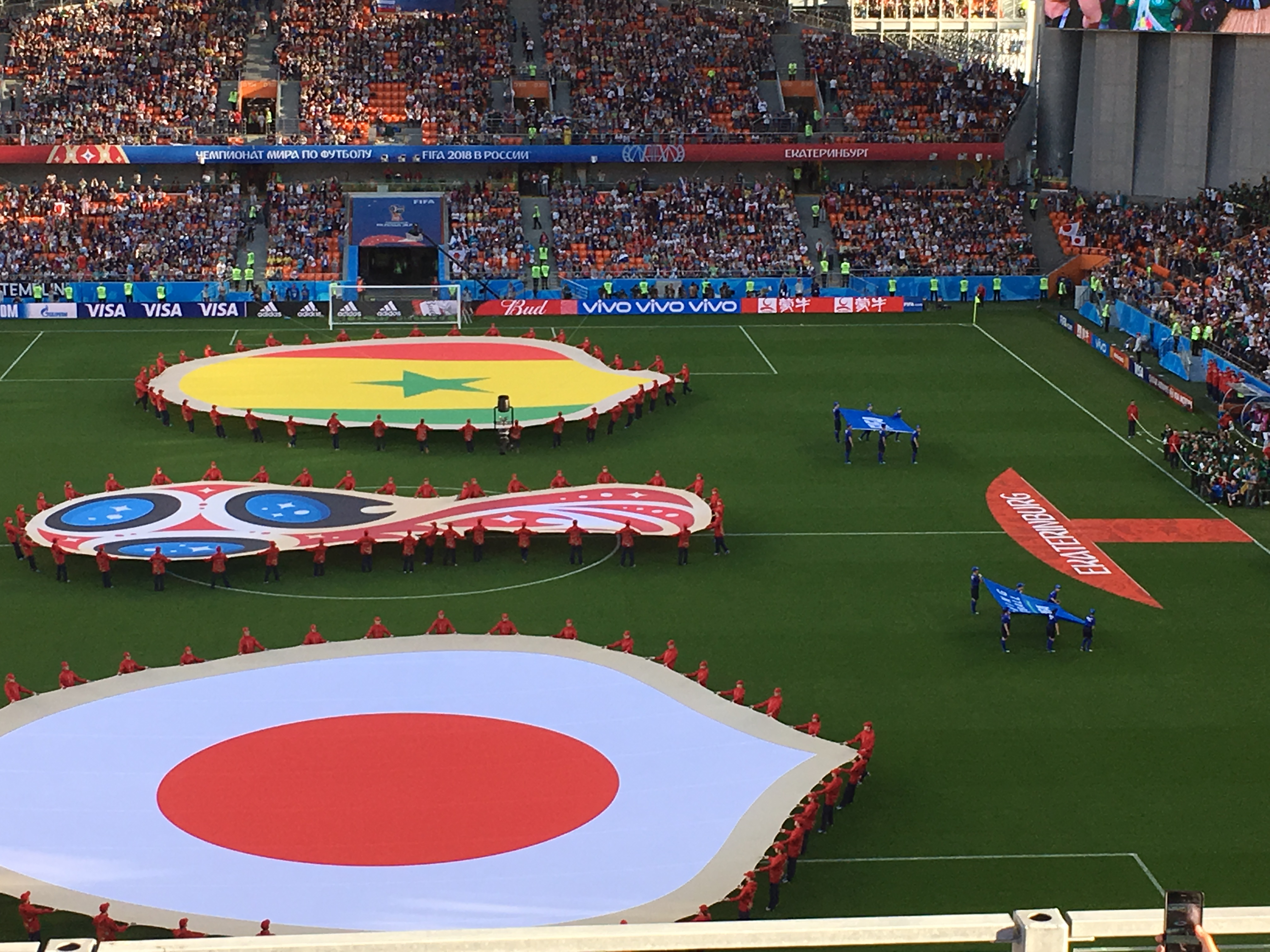 Japan-Senegal in Yekaterinburg (FIFA World Cup 2018)